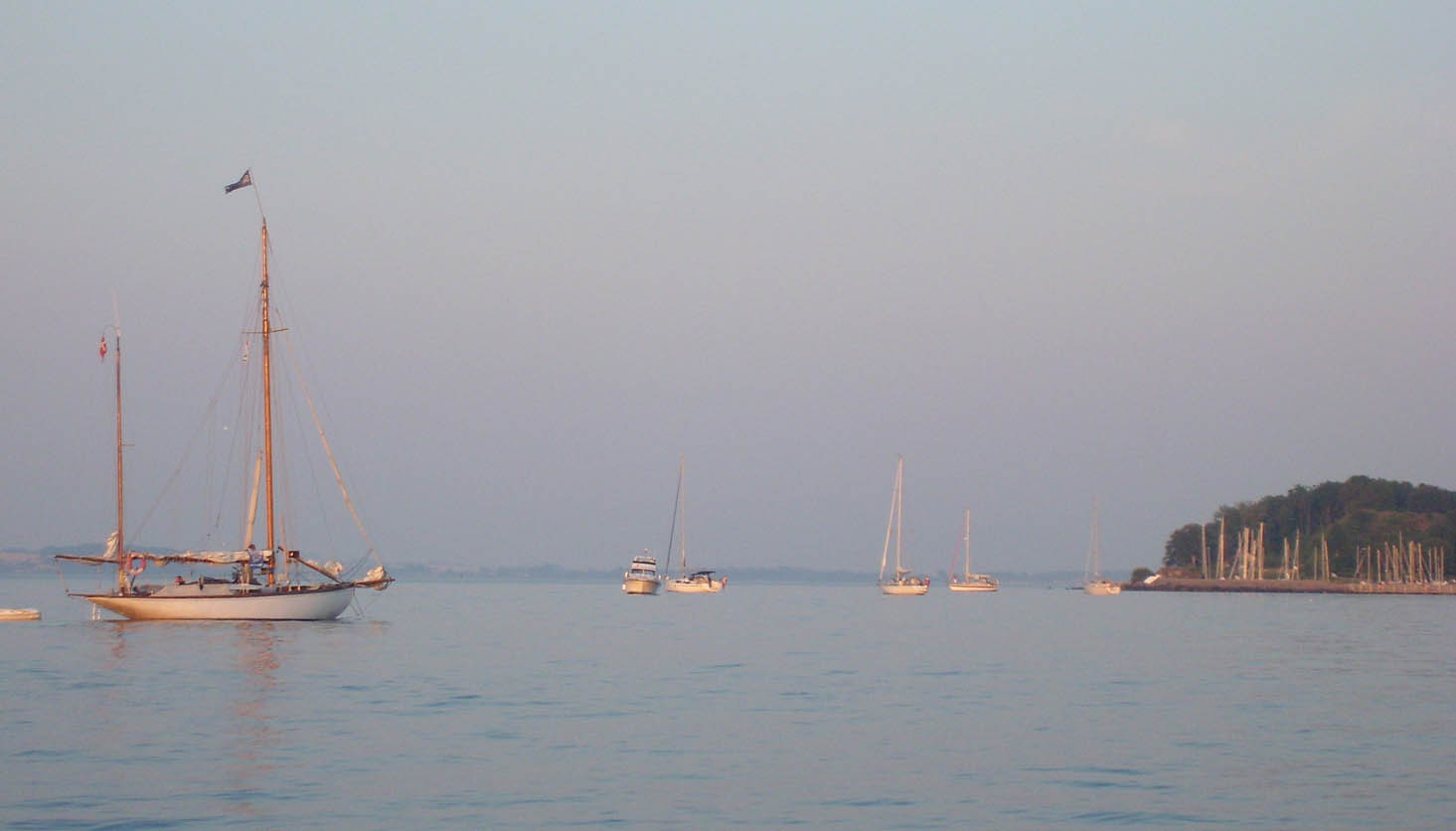 Yachts at anchor in the Sound off Norreborg